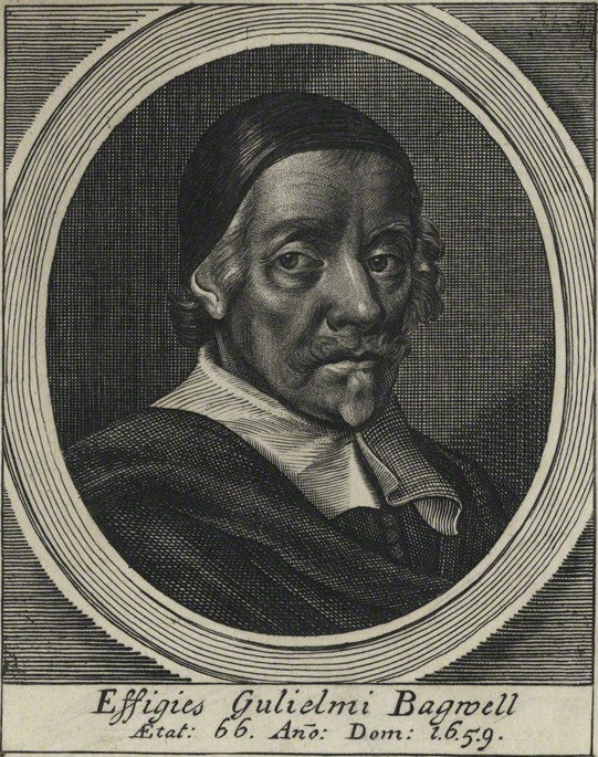 Portrait of William Bagwell (fl. 1655), English merchant and writer on astronomy.